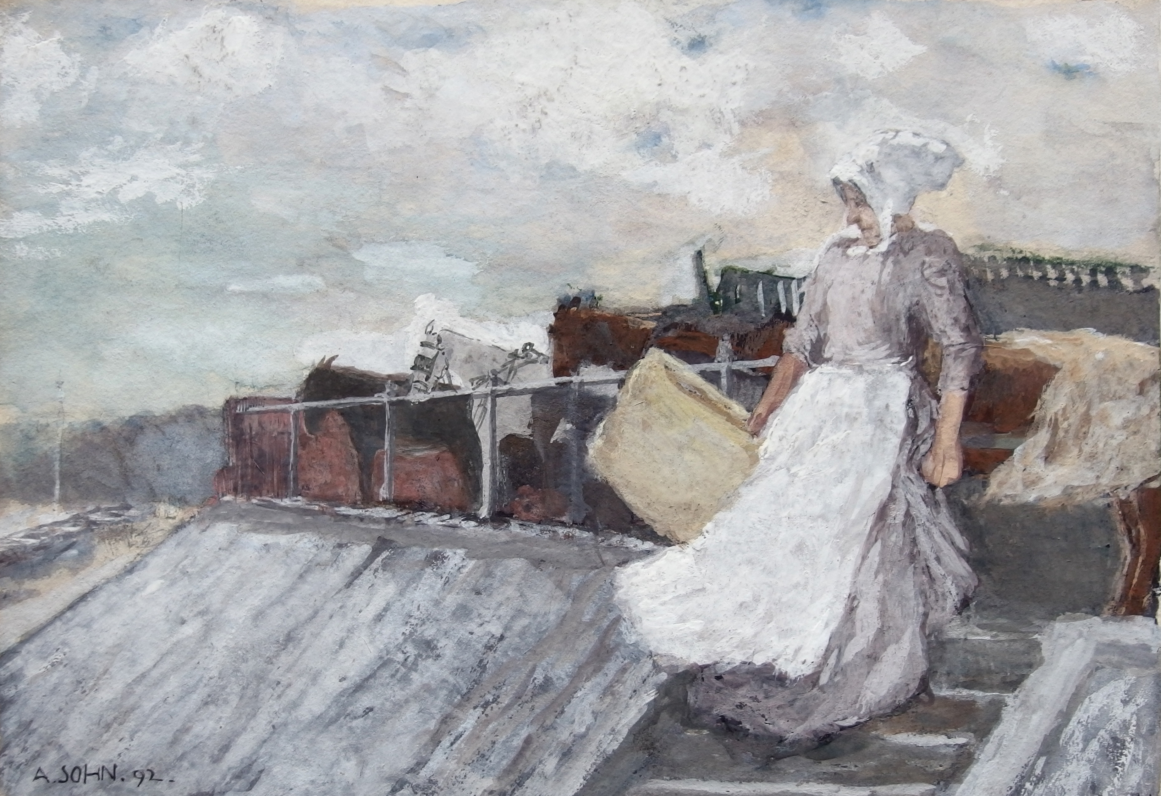 Alfred Sohn-Rethel, Gouache 23 x 16 cm, 1892